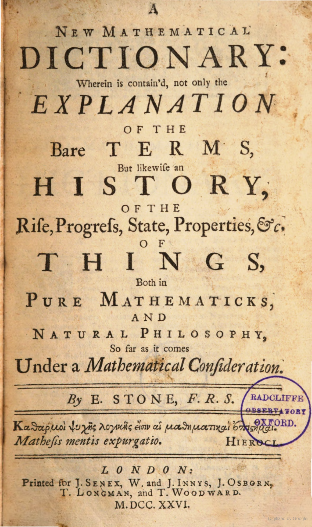 Frontpage of A Mathematical Dictionary (1726) by Edmund Stone (1700-1768)